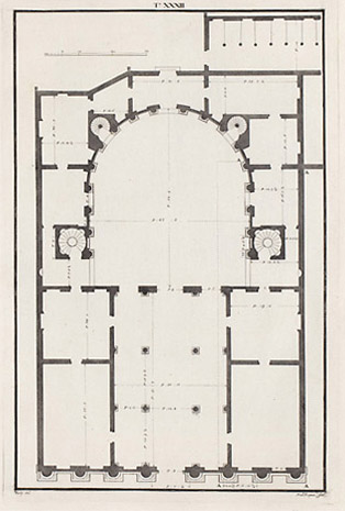 Palazzo Porto, in piazza Castello in Vicenza. Drawing from Ottavio Bertotti Scamozzi, 1776